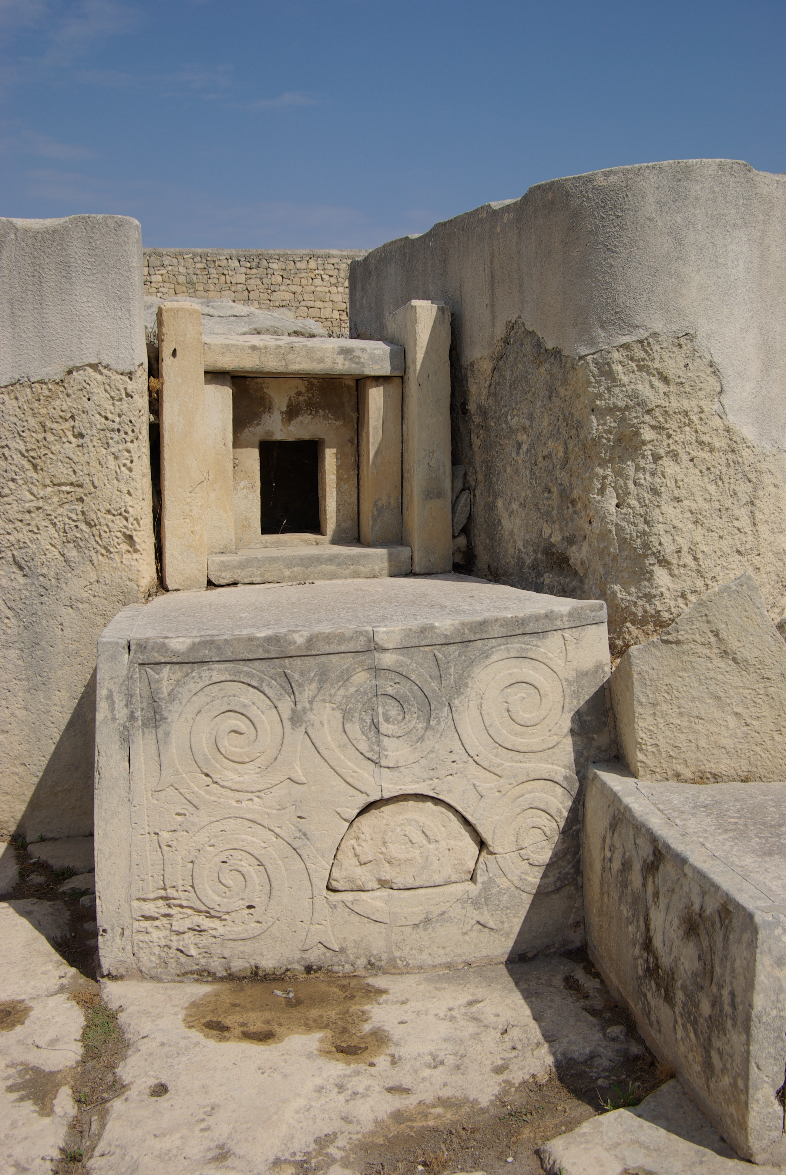 Malta, Tarxien temples, altar. This is a copy, the original is in the National Museum of Archaeologie in Valetta.